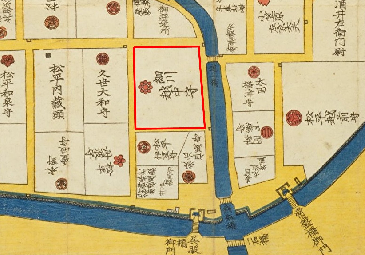 Residence of Hosokawa 1 clan at Edo